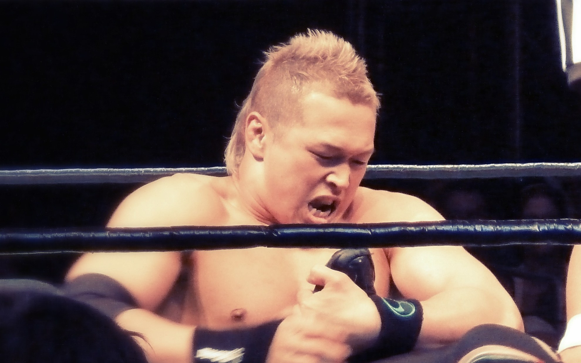 Kotaro Suzuki in the ring at Pro Wrestling NOAH's European Navigation 2011 in Broxbourne Civic Hall on 13 May 2011. Processed using Lo-Fi. Cropped from original.